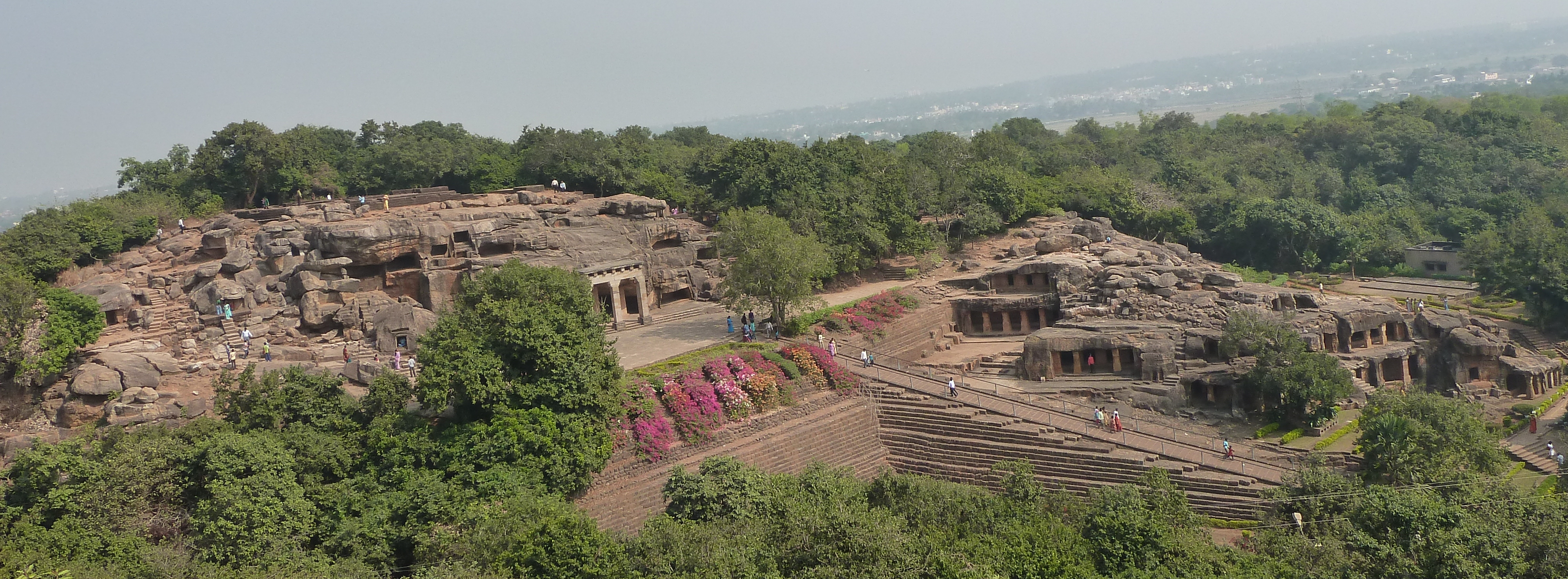 Udayagiri caves as seen from Khandagiri hill